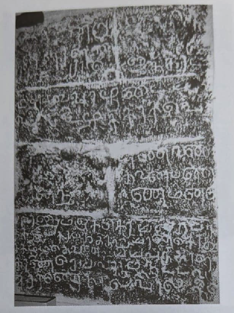 Vanavanmatevi-isvaram inscription 3